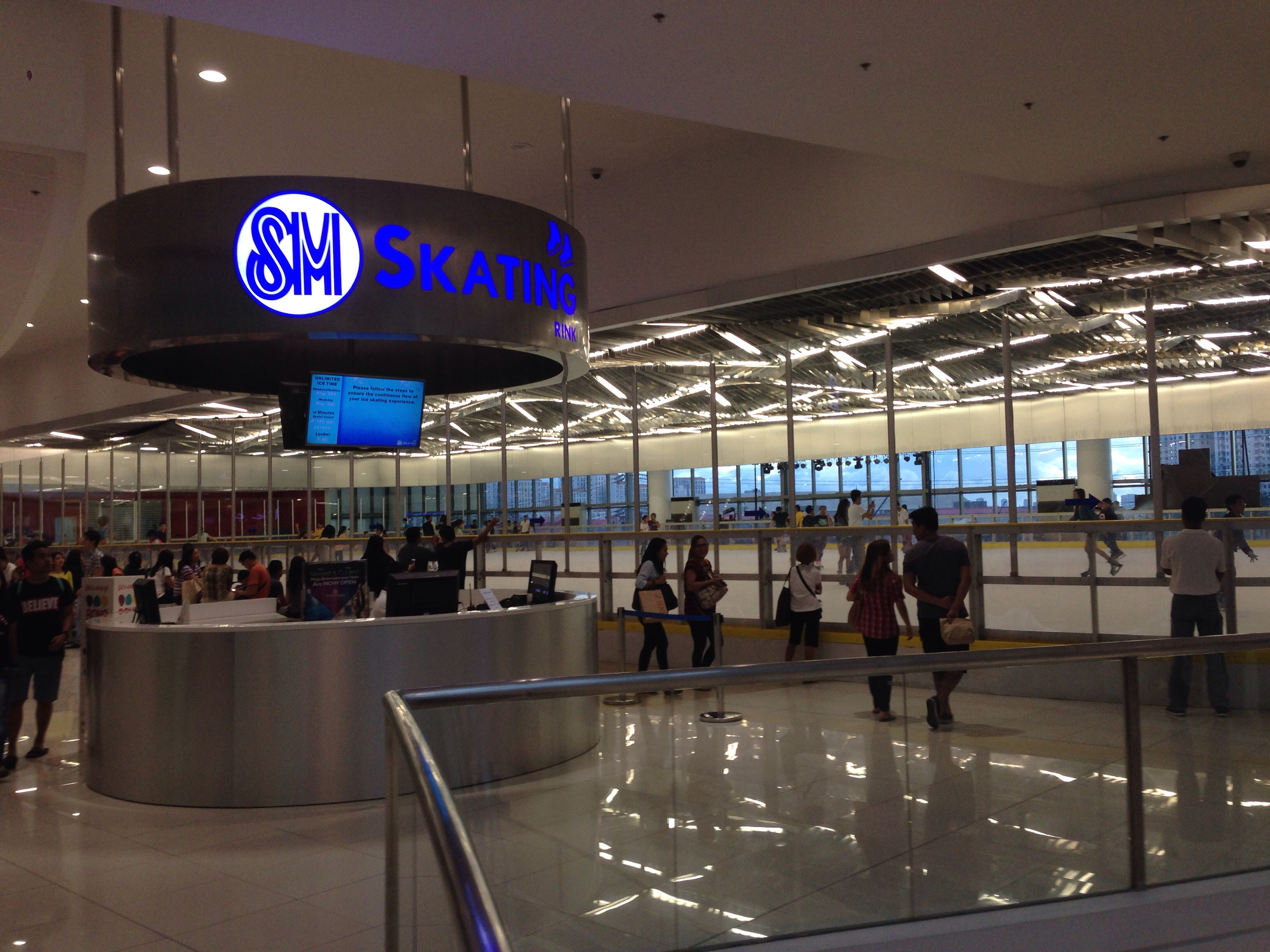 SM Ice Skating Rink is located at the 5/F of Mega Fashion Hall in SM Megamall, Ortigas Center, Manila, Philippines